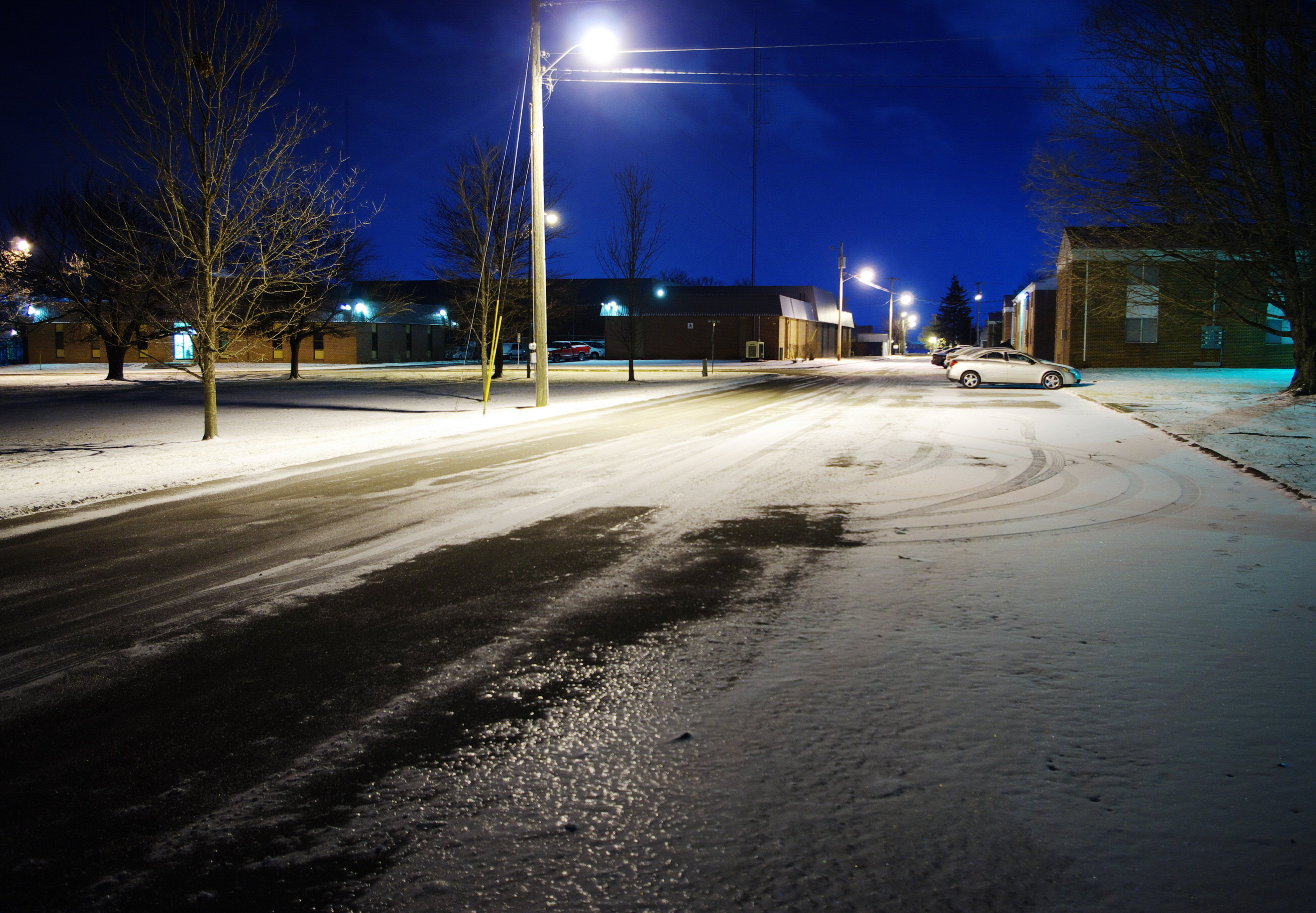 View south along North Whitney Avenue at Tennessee Technological University in Cookeville, Tennessee, United States, during the 2014 polar votex. The temperature when the photograph was taken was 0ºF (-18ºC).